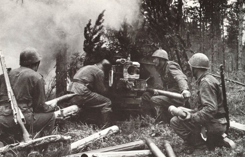 A Finnish anti-tank gun crew in summer field uniform with a mixture of Czech, German WWI and Italian helmets in 1942.